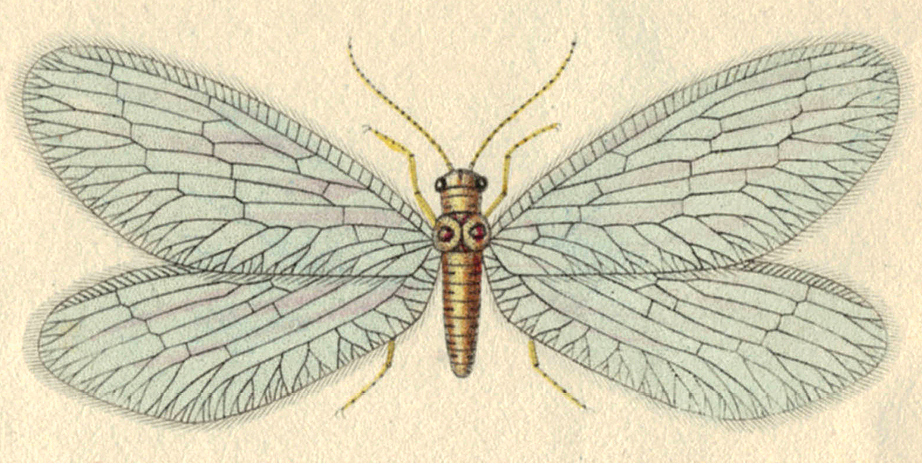 Nevrorthus iridipennis Costa. Italy: Calabria. From Costa (1863), who published the first illustration of a nevrorthid.